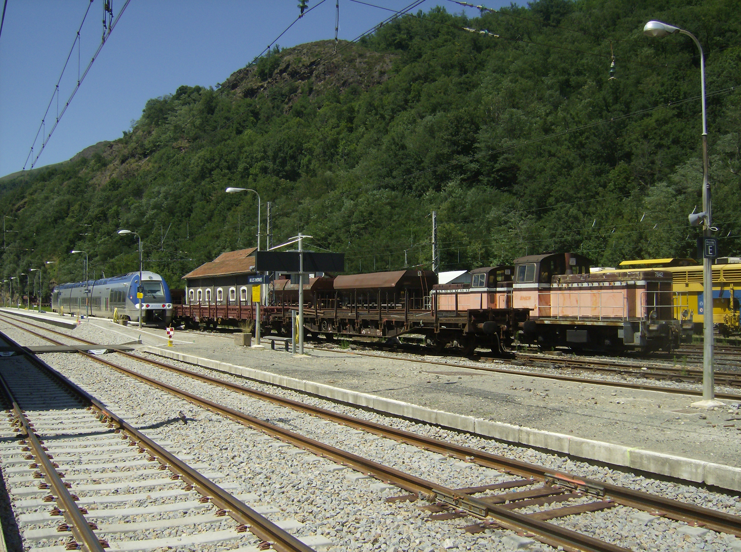 The station of Ax-les-Thermes, France.